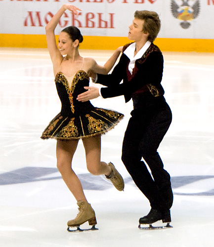 2010 Cup of Russia, free skating. Don Quixote program.